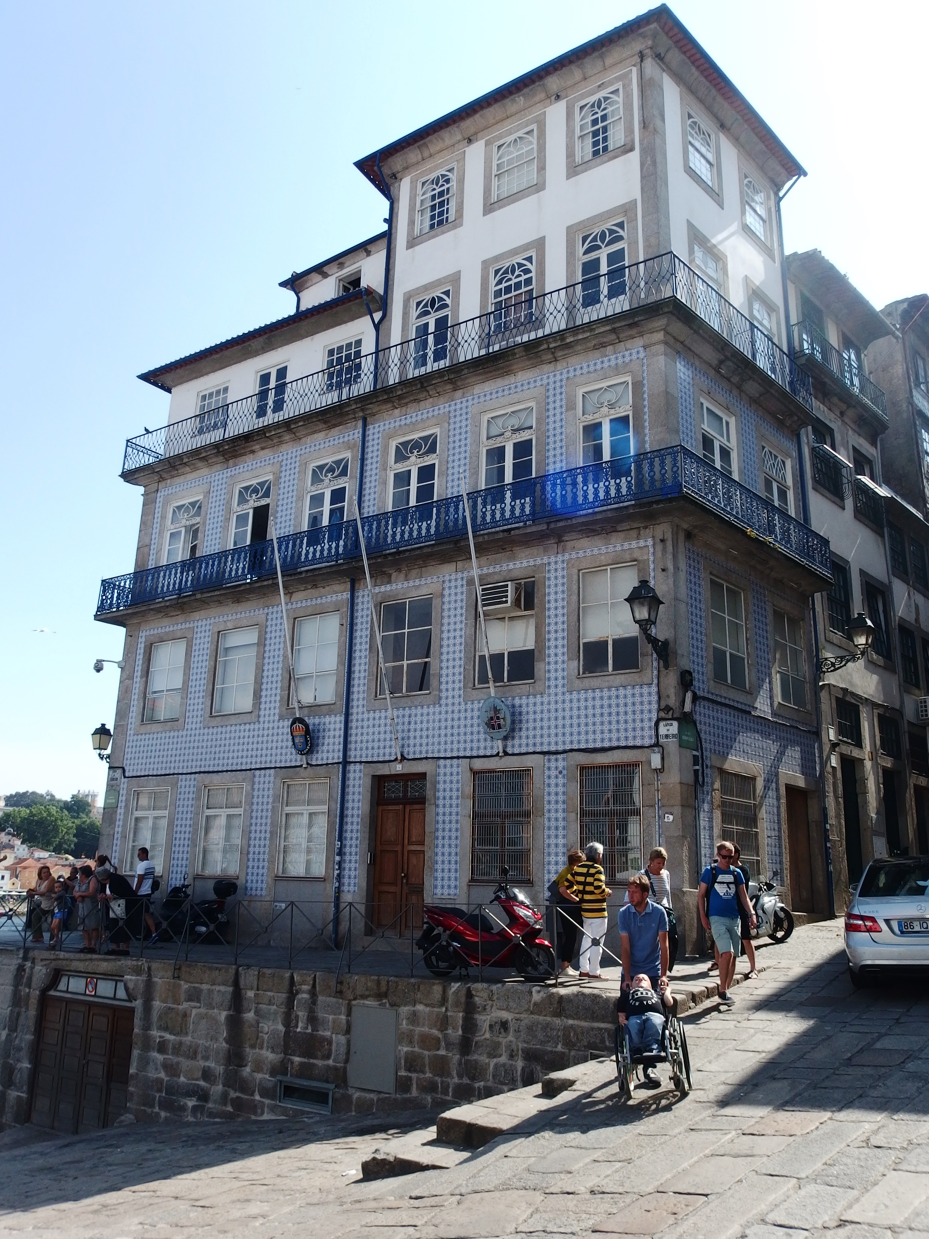 Porto, Portugal. Swedish Honorary Consulate. Largo do Terreiro 4, 4050-603 Porto.